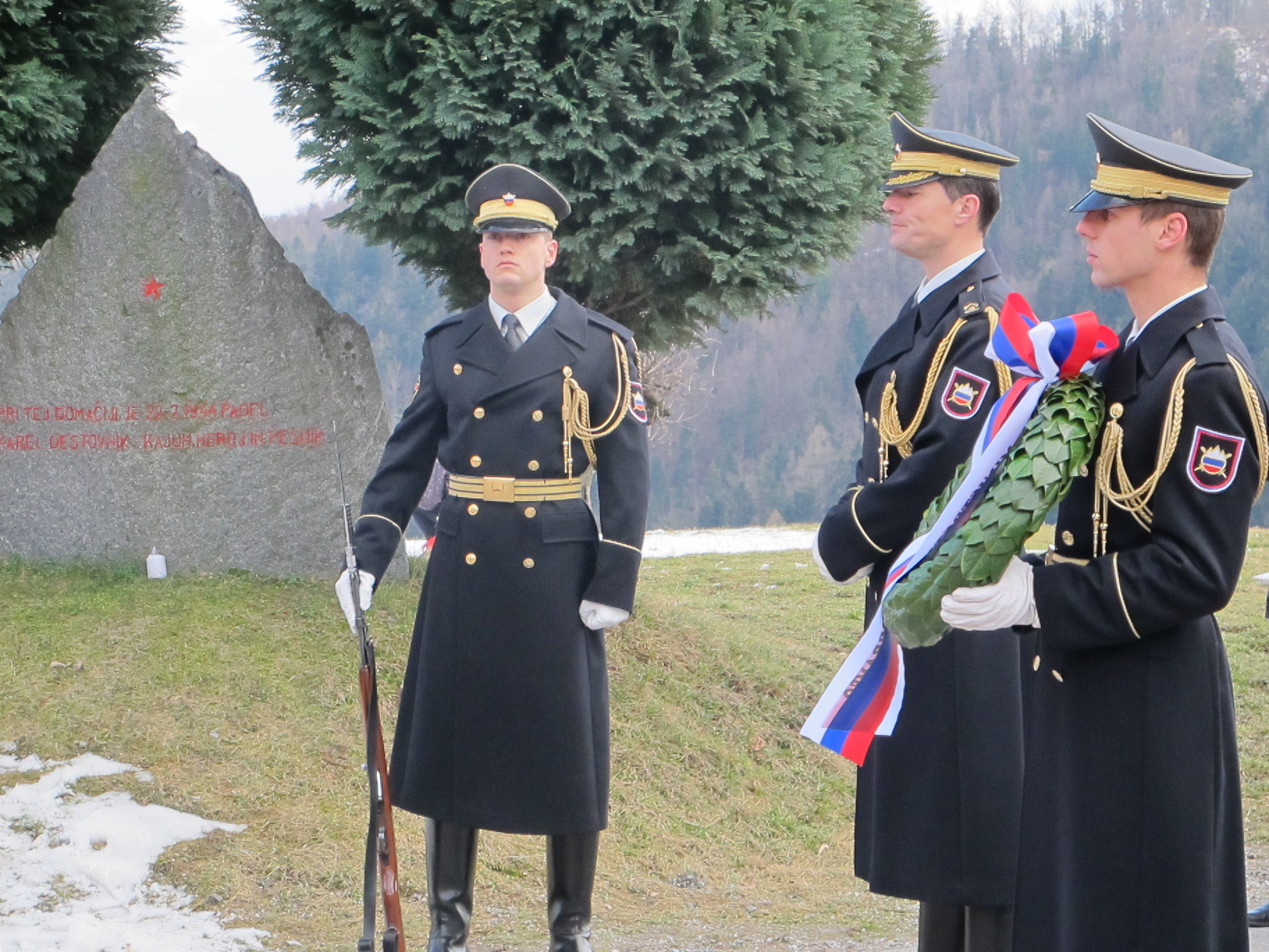 2016 Karel Destovnik commemoration.